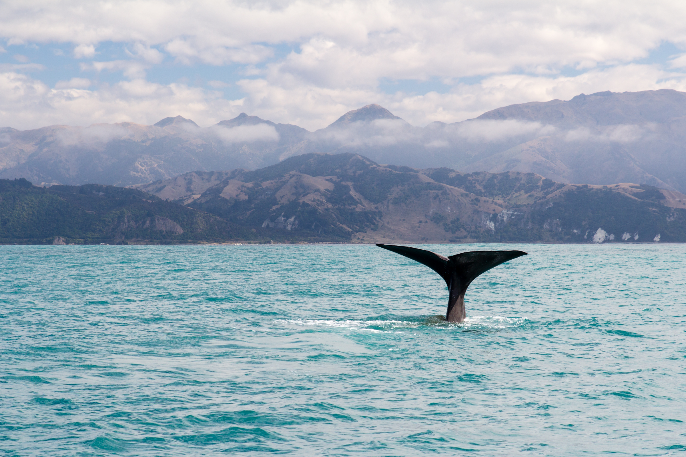 Whale Watching in Kaikoura, New Zealand